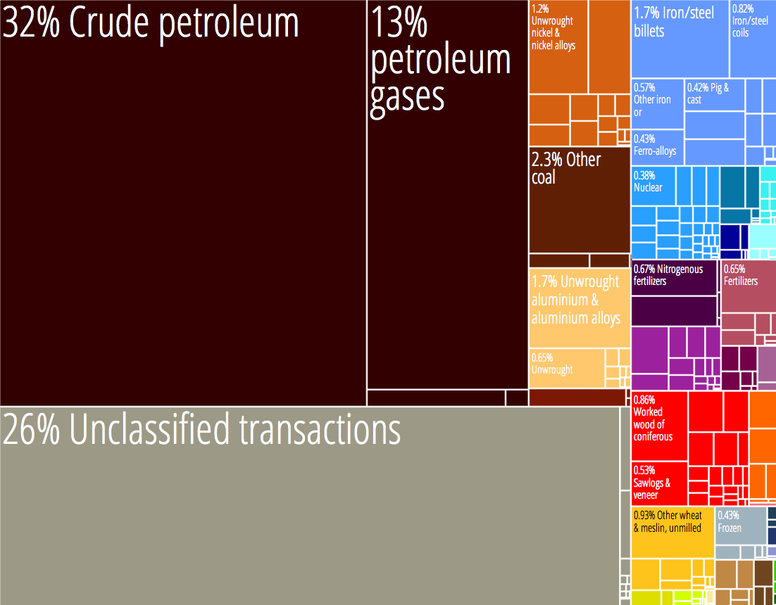 Graphical depiction of the country's product exports in 28 color coded categories. Each colored box represents one product and its size is proportional to the share of the country's total exports that the product represents.